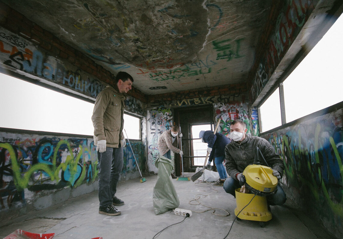 Субботник в Белой башне